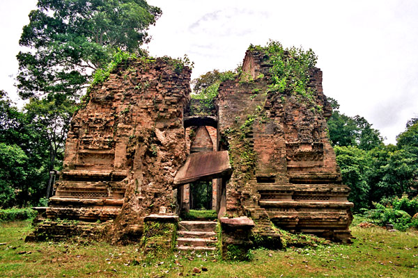 N1 Sanctuary. Sambor Prei Kuk. Cambodia